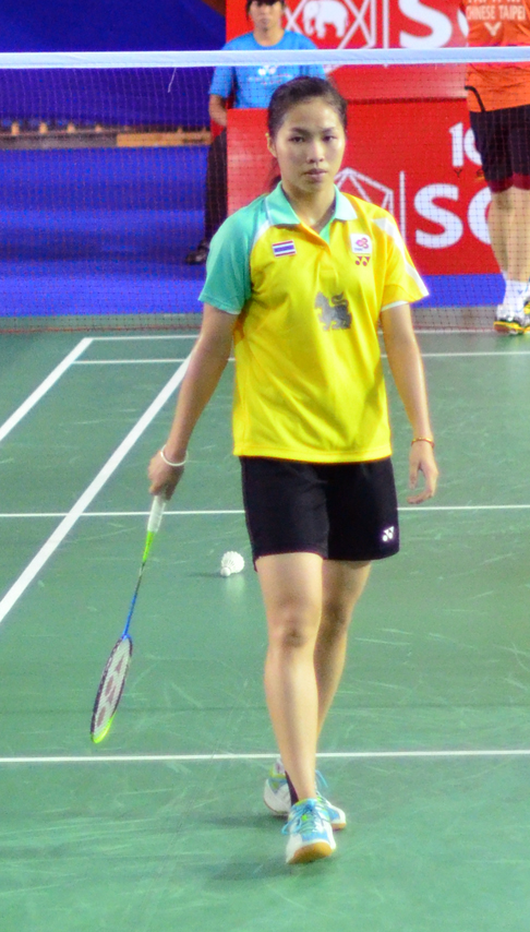 Ratchanok Inthanon